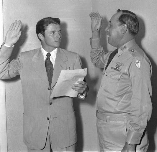 Captain Audie Murphy is sworn in to the Texas National Guard by U. S. Army Major General H. Miller Ainsworth 14 July 1950